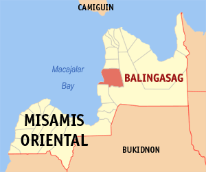 Map of the Misamis Oriental showing the location of Balingasag